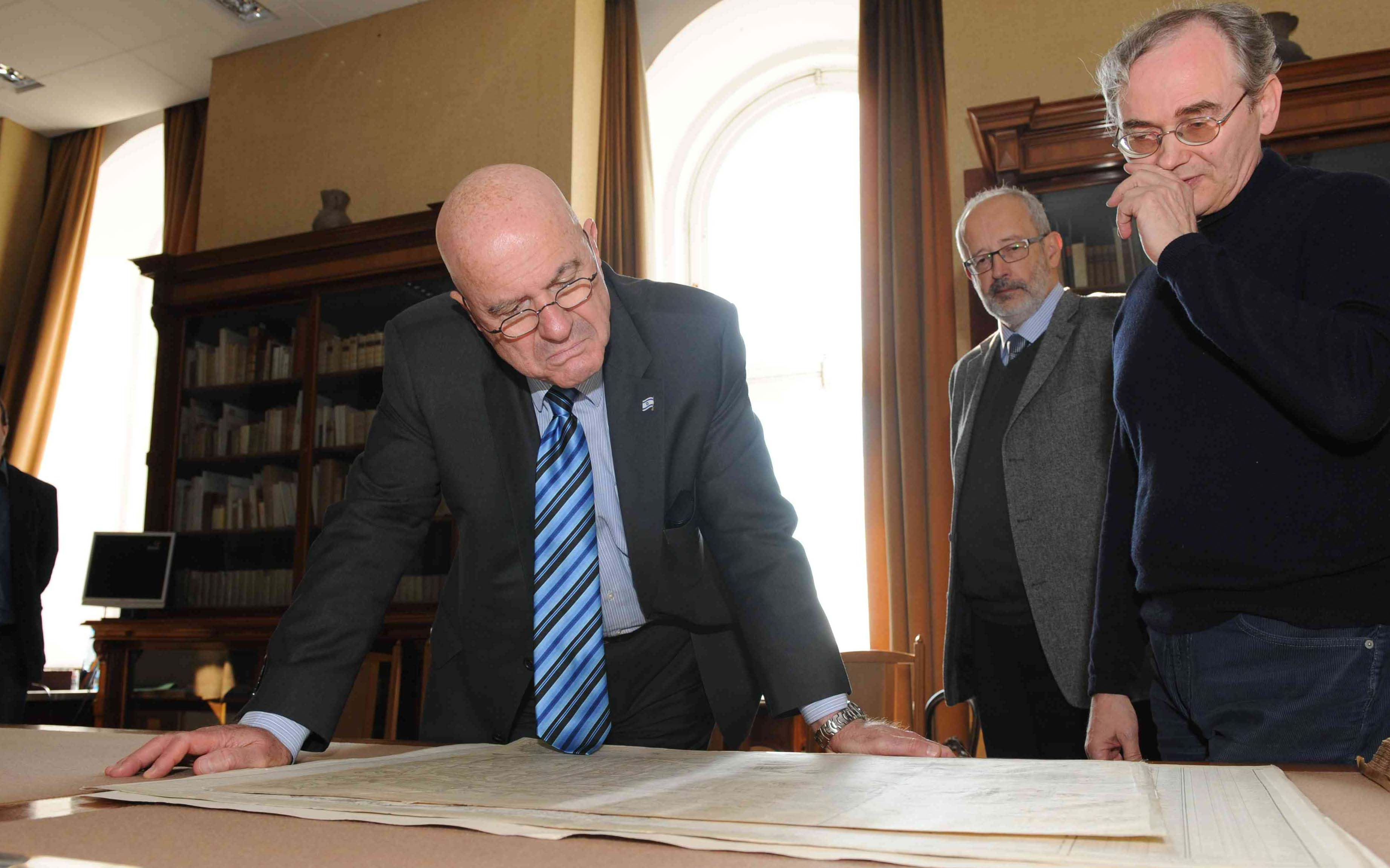 György Danku, staff member of NSZL’s Map Collection presented to Ilan Mor, among others, maps of the Holy Land, a major influential version of early modern-age Jerusalem maps, and one of the earliest Hungarian-lanugage maps published in Hungary about the State of Israel. On November 4, 2015, Ilan Mor, Extraordinary and Plenipotentiary Ambassador of the State of Israel paid a visit to National Széchényi Library where he discussed the possibilities of cultural cooperation with Director-General of NSZL László Tüske. After the meeting, the Ambassador had a look at of some of the special pieces of our collections.